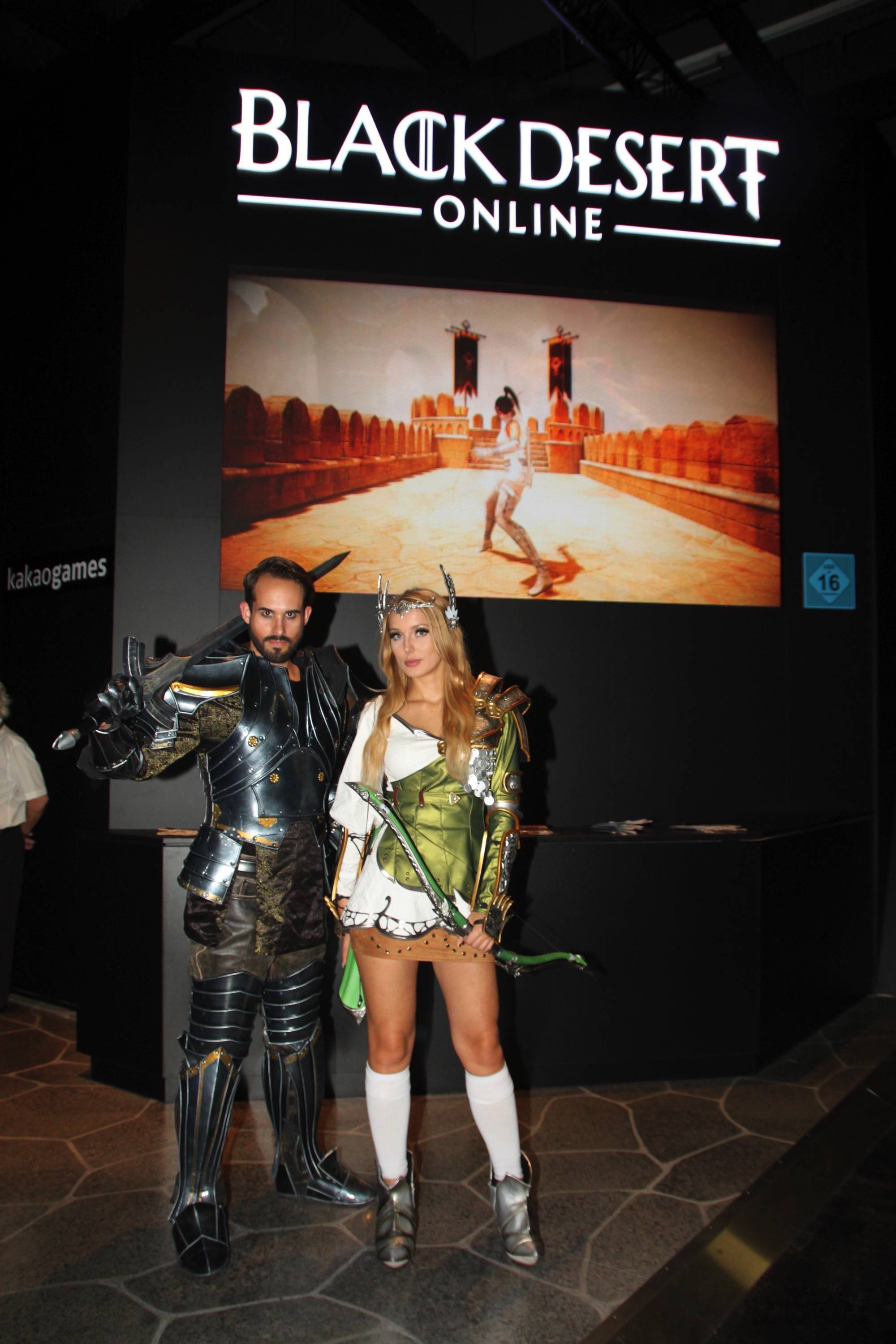 Gamescom 2016 impressions - Thursday (open for all visitors)